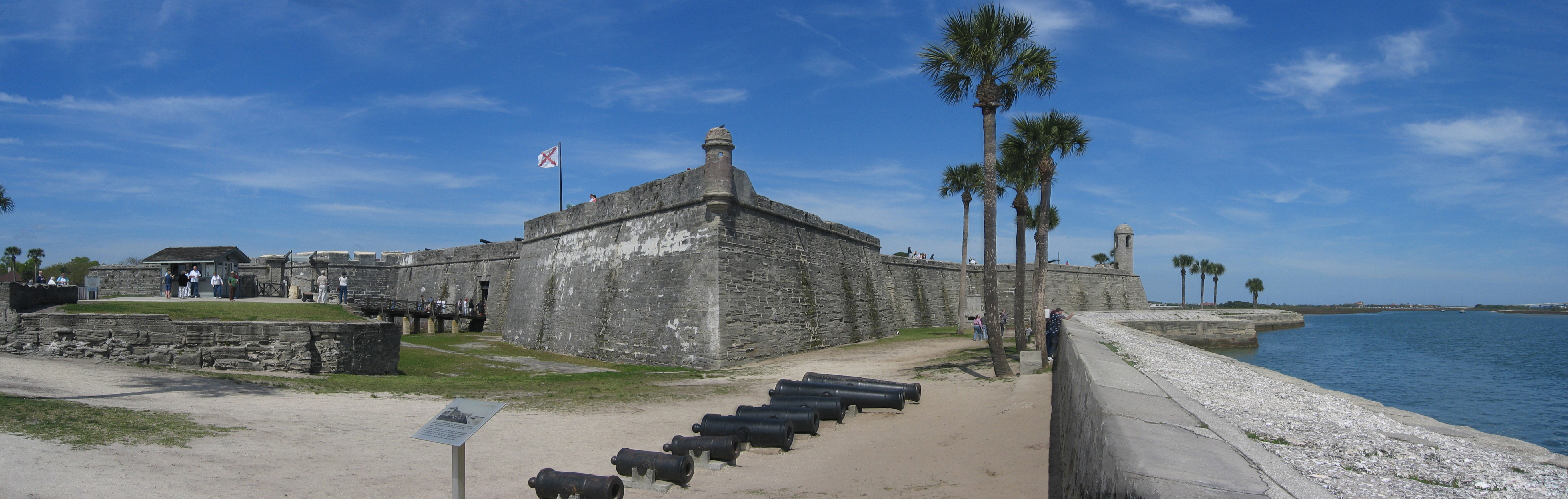 Panorama of the Castillo de San Marcos fort in St. Augustine, Florida, USA. It was made with Hugin by merging four pictures.